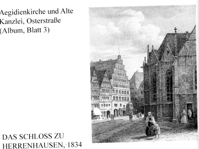 Aegidienkirche and the Old Firm in the Osterstraße in Hannover 1834/1835. Lithograph by Rudolf Wiegmann in his album of Hanover from 1835th.